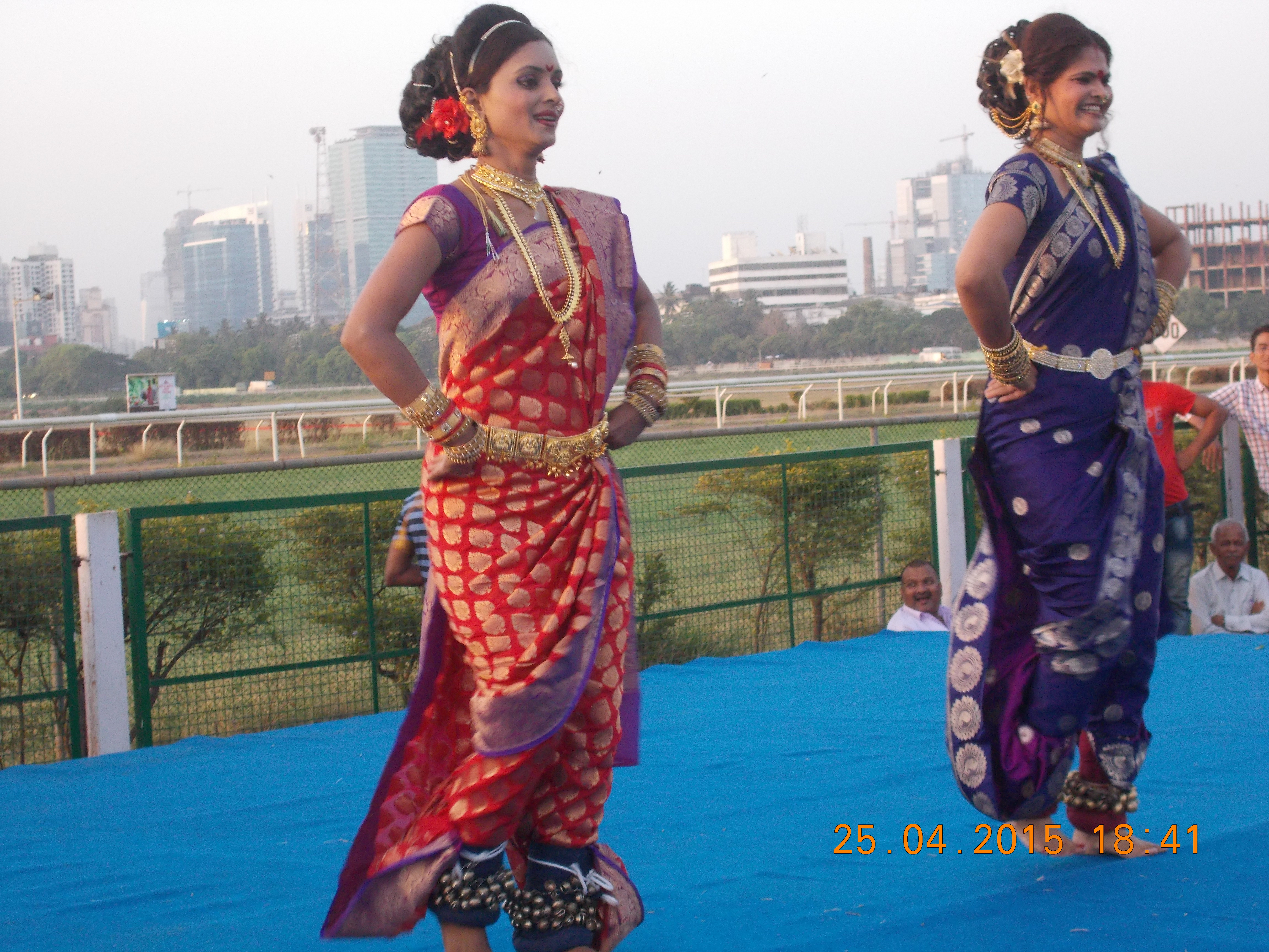 Marathi folk theatre Lavani dancers performing during the interval of the "Night Racing Carnival".